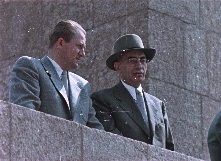 Light industry minister Béla Szalai and Party High Officer Ernő Gerő at the workers procession on the 1st of May, 1955, in Budapest